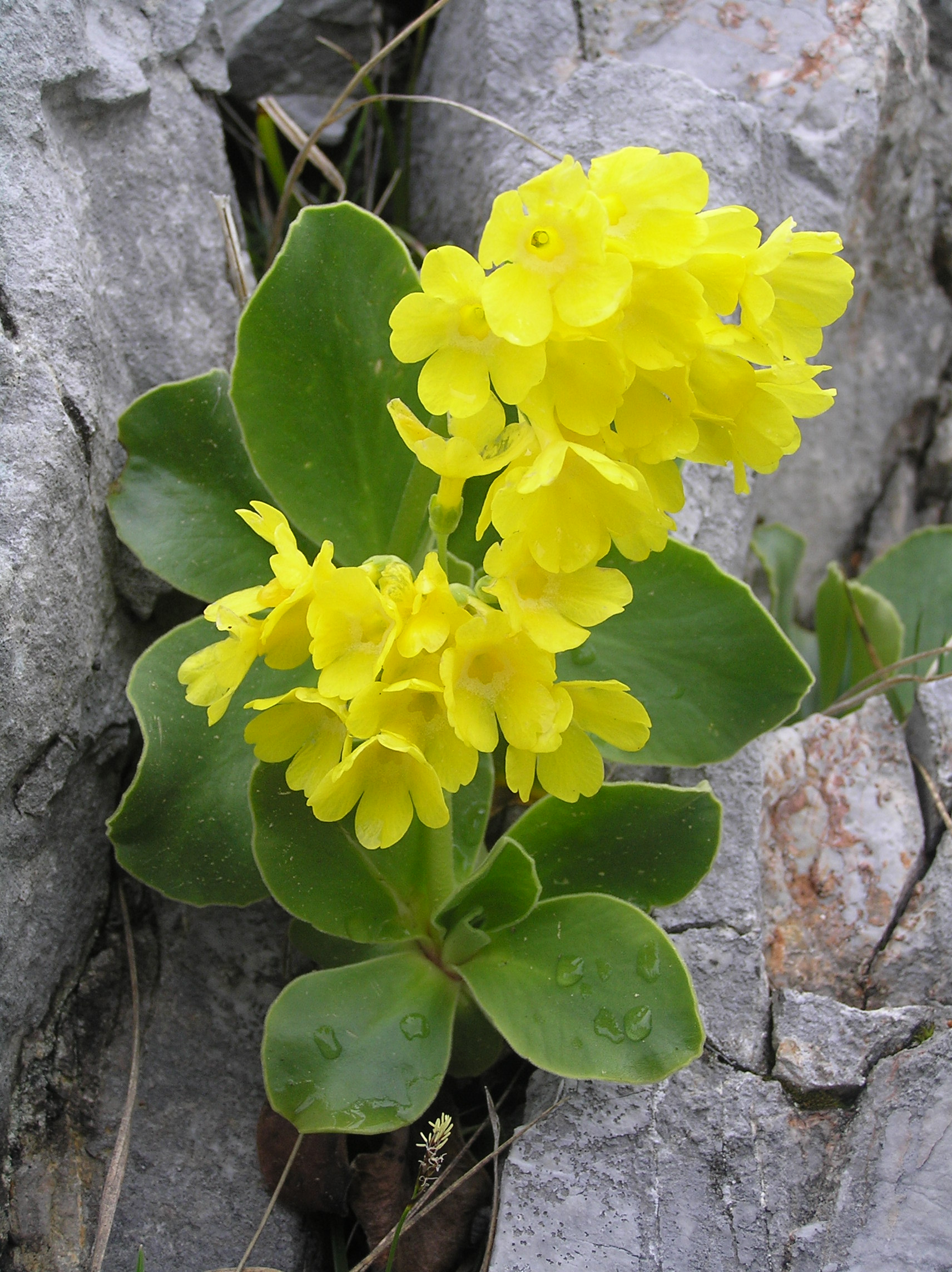 Primula auricula, Austria, Alps, the mountain Schneeberg near Wiener Neustadt